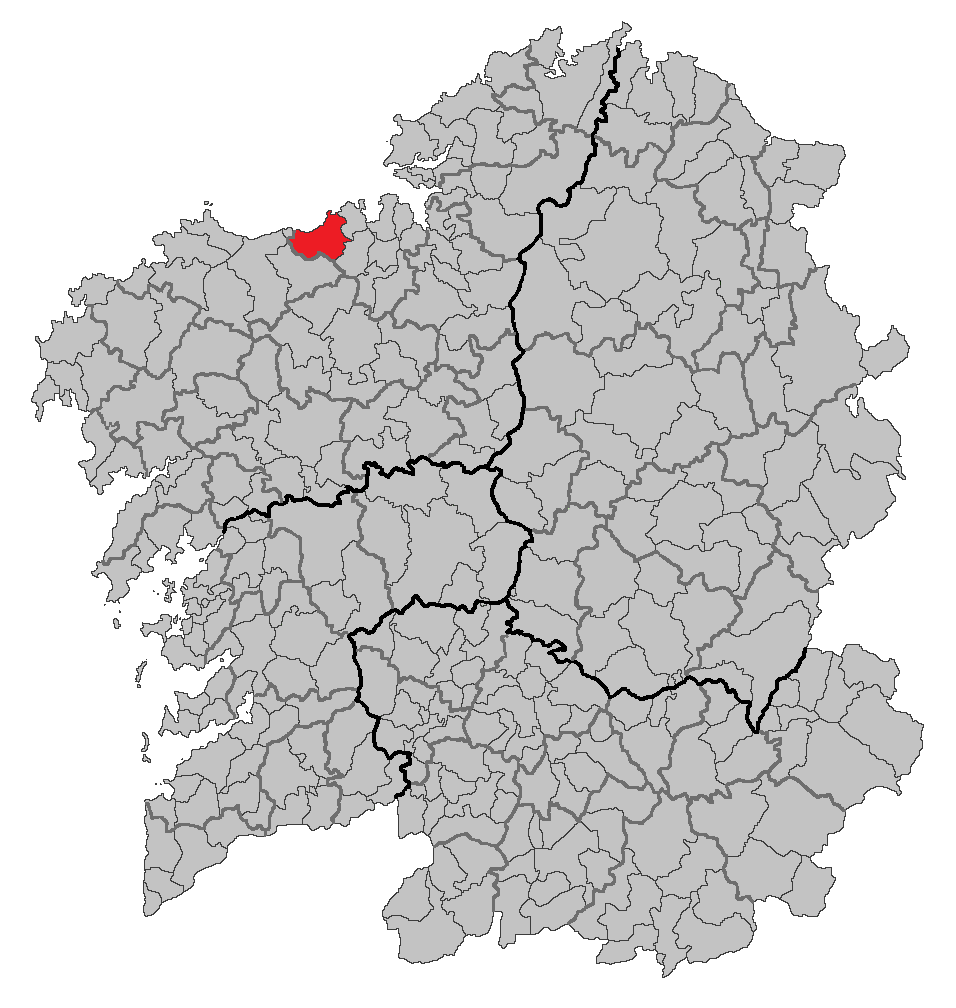 Location map of Arteixo, A Coruña, Galicia